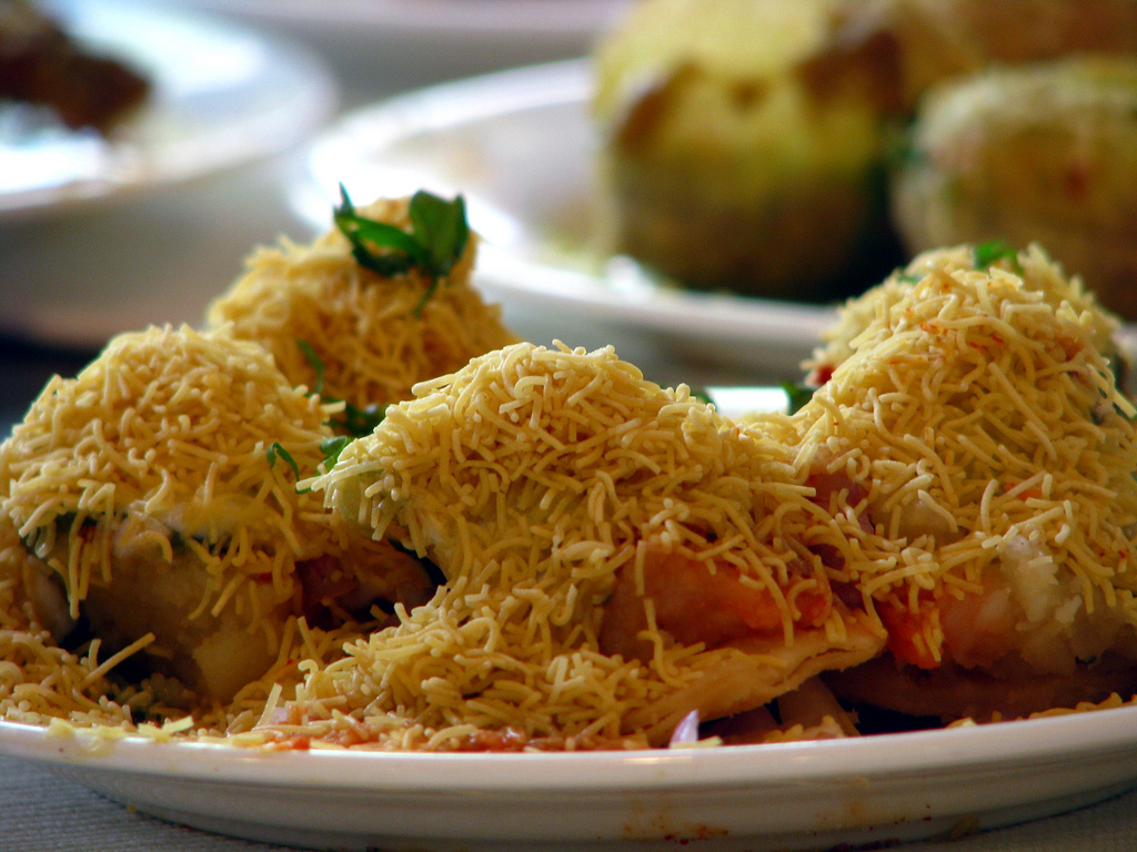 Sev Puri as served at Saffron & Spices restaurant in Andheri, Mumbai